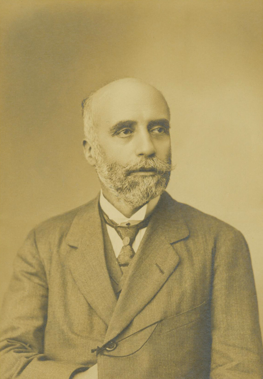 Portuguese archeologist and ethnographer Leite de Vasconcelos (1858-1941)